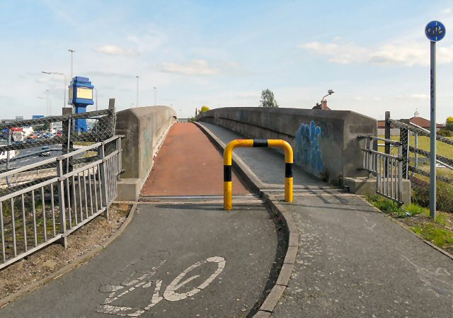 Footbridge over M60 at Denton Also a cycle path.